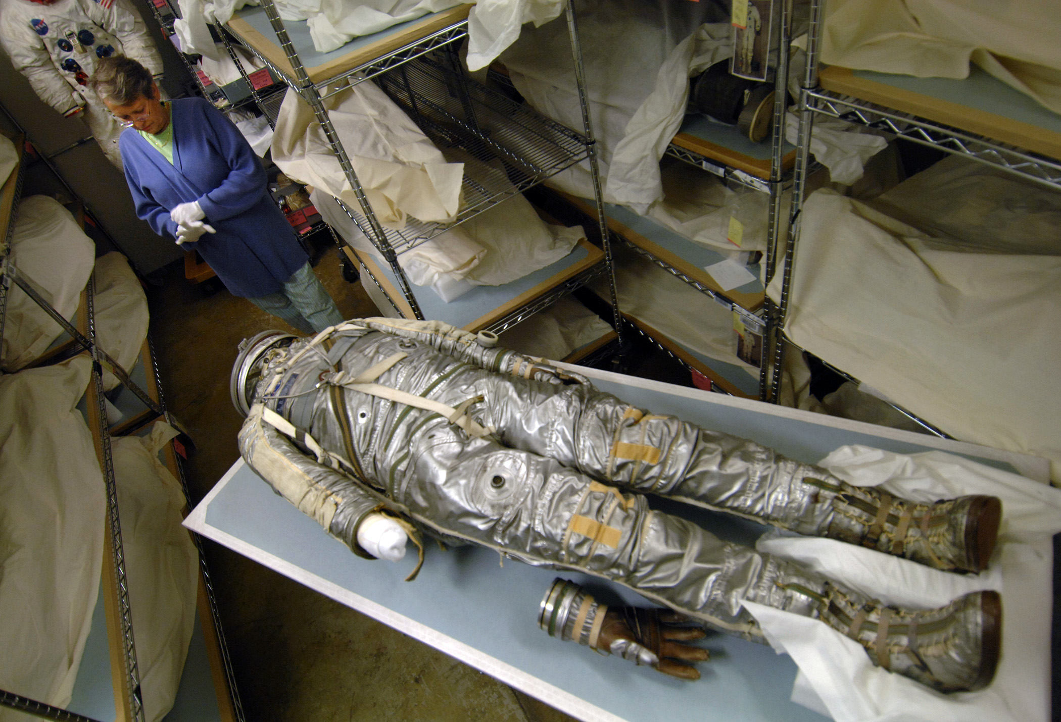 SUITLAND, Md. (June 8, 2007) - Amanda Young, the National Air & Space Museum's specialist in early manned spaceflight and astronautical equipment, dons her gloves while preparing to inspect former naval astronaut Rear Adm. Alan B. Shepard's project Mercury spacesuit, worn May 5, 1961, when Shepard piloted the Freedom 7 orbiter and became America's first man in space. Shepard's suit, along with many other historically significant spacesuits, is currently stored in temperature and humidity controlled environments at the Paul E. Garber Preservation, Restoration and Storage Facility. U.S. Navy photo by Mass Communication Specialist 2nd Class Kristopher Wilson (RELEASED)